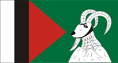 Flag of Balawaristan National Front, northern Pakistan.